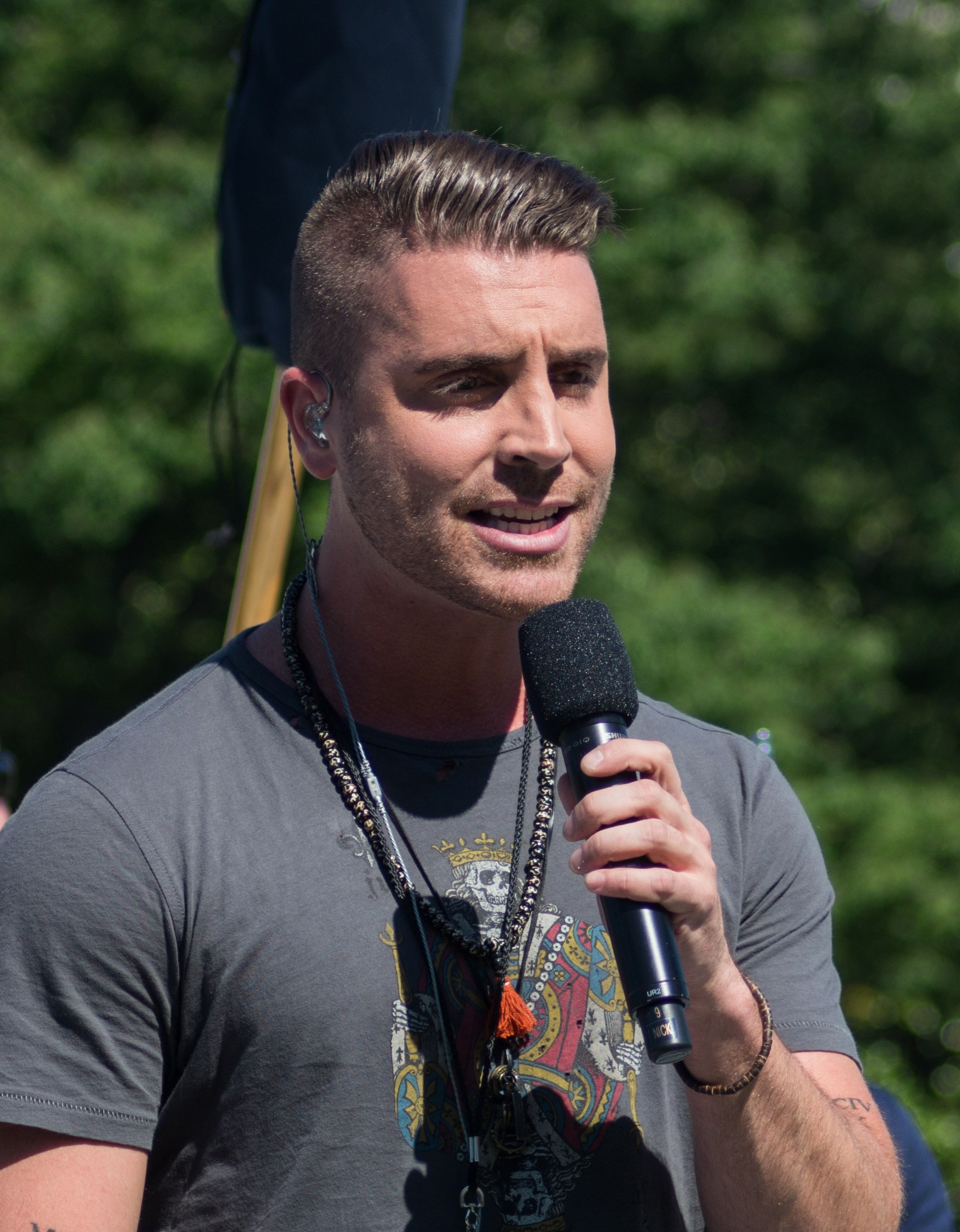 Nick Fradiani at the National Memorial Day Concert Open Dress Rehearsal at the U.S. Capitol in Washington, DC on May 24, 2015